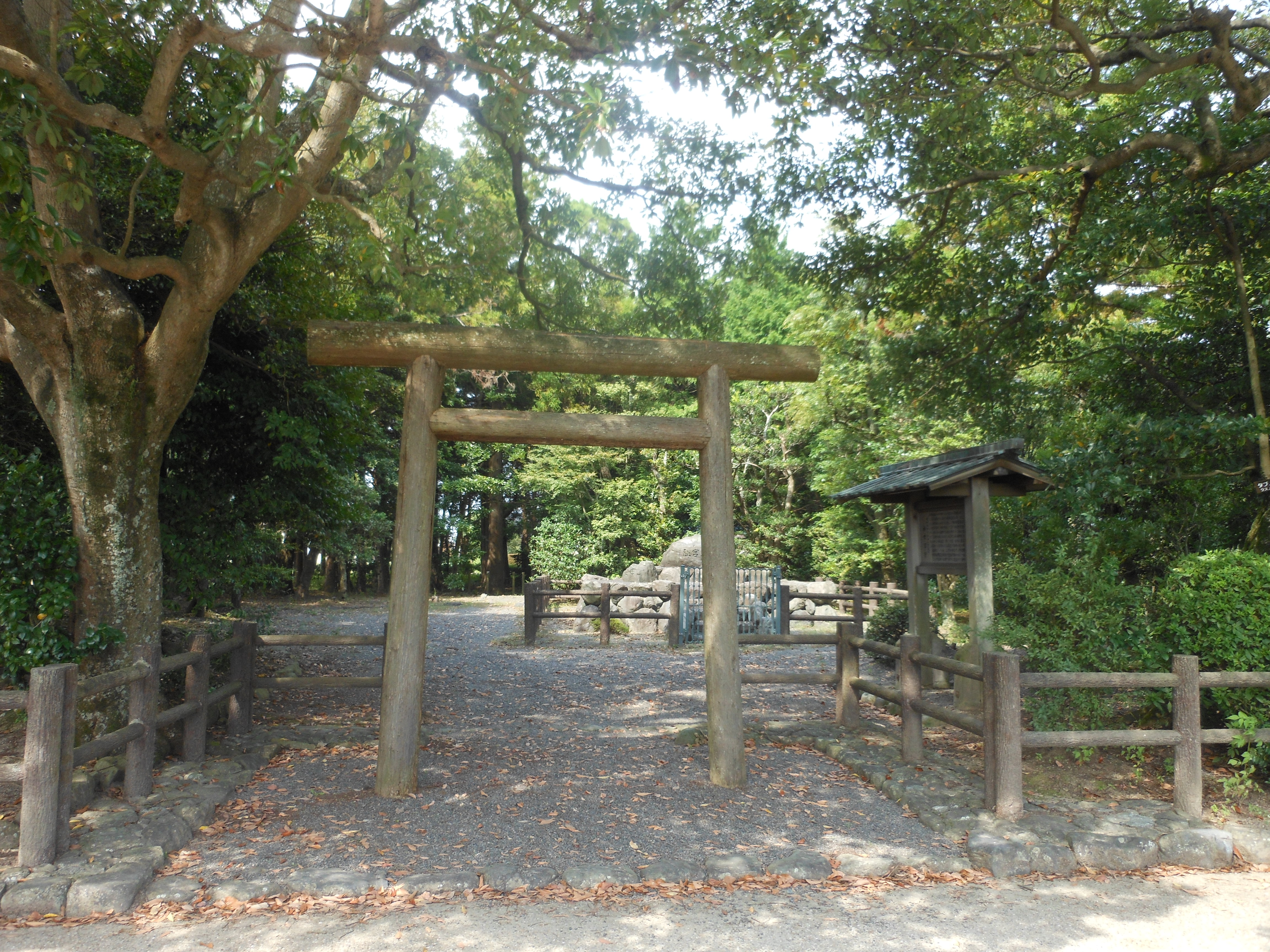 This is a site of Saiokyu, ancient government buildings. It is located Meiwa, Mie, Japan.